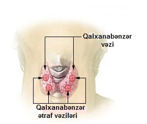 Thyroid and parathyroid glands